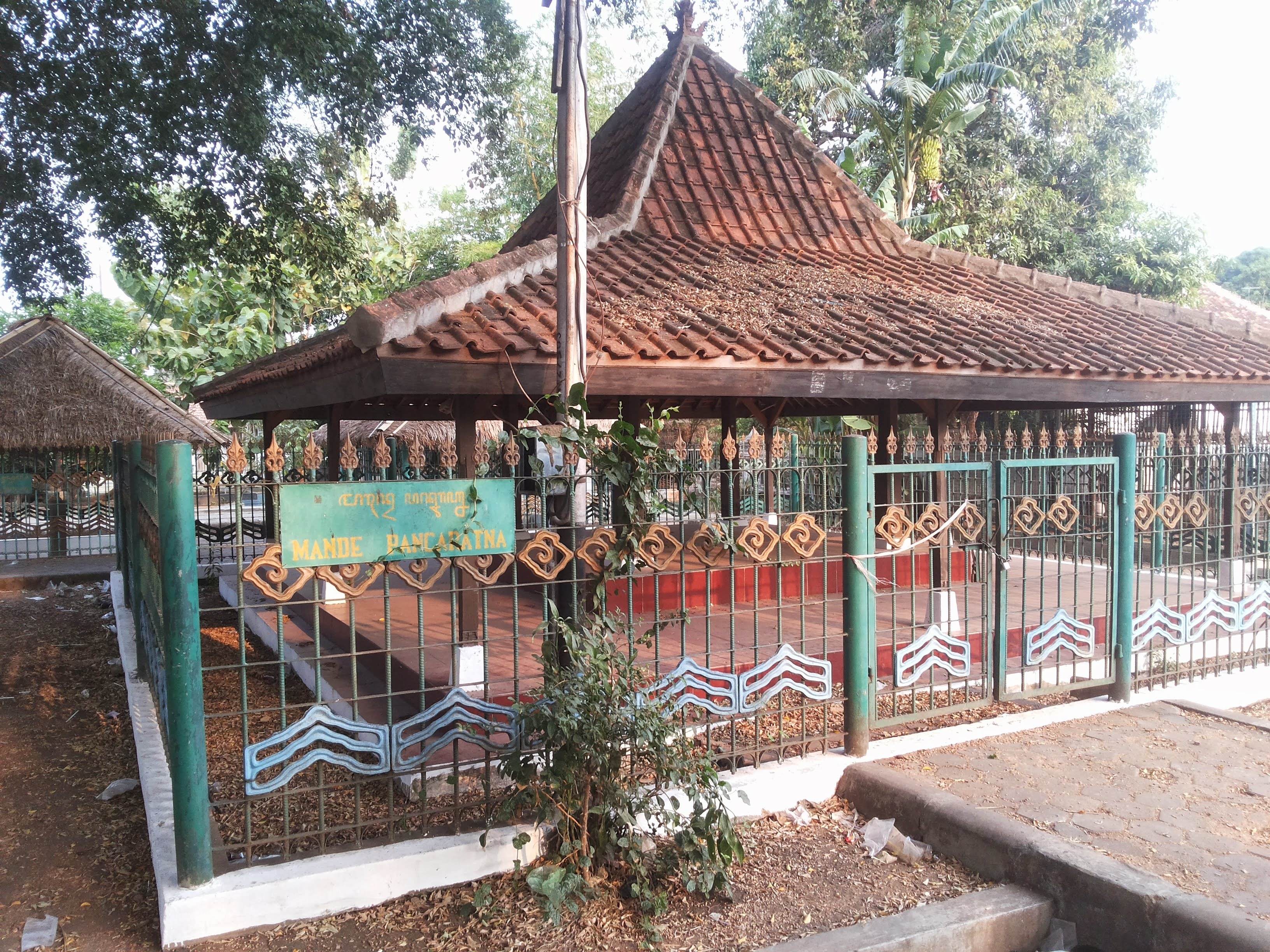 Kanoman palace